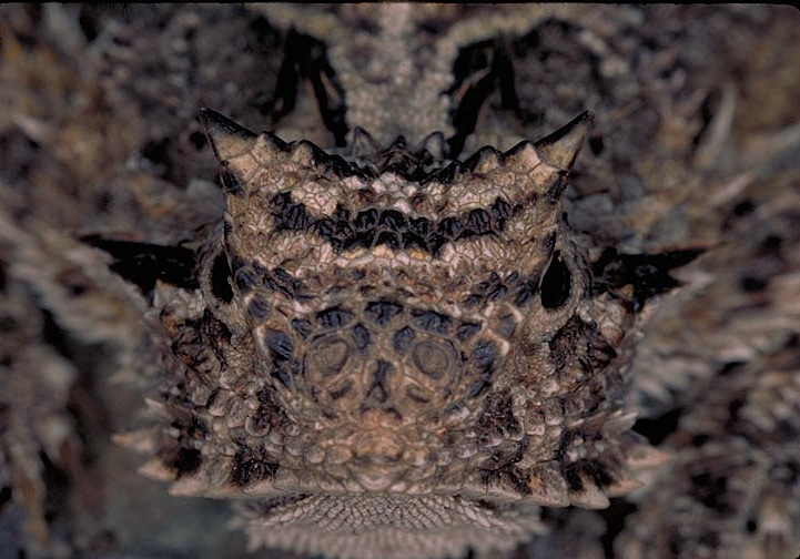 This is a very low lying lizard. In order to get this photograph, I had to get even lower...